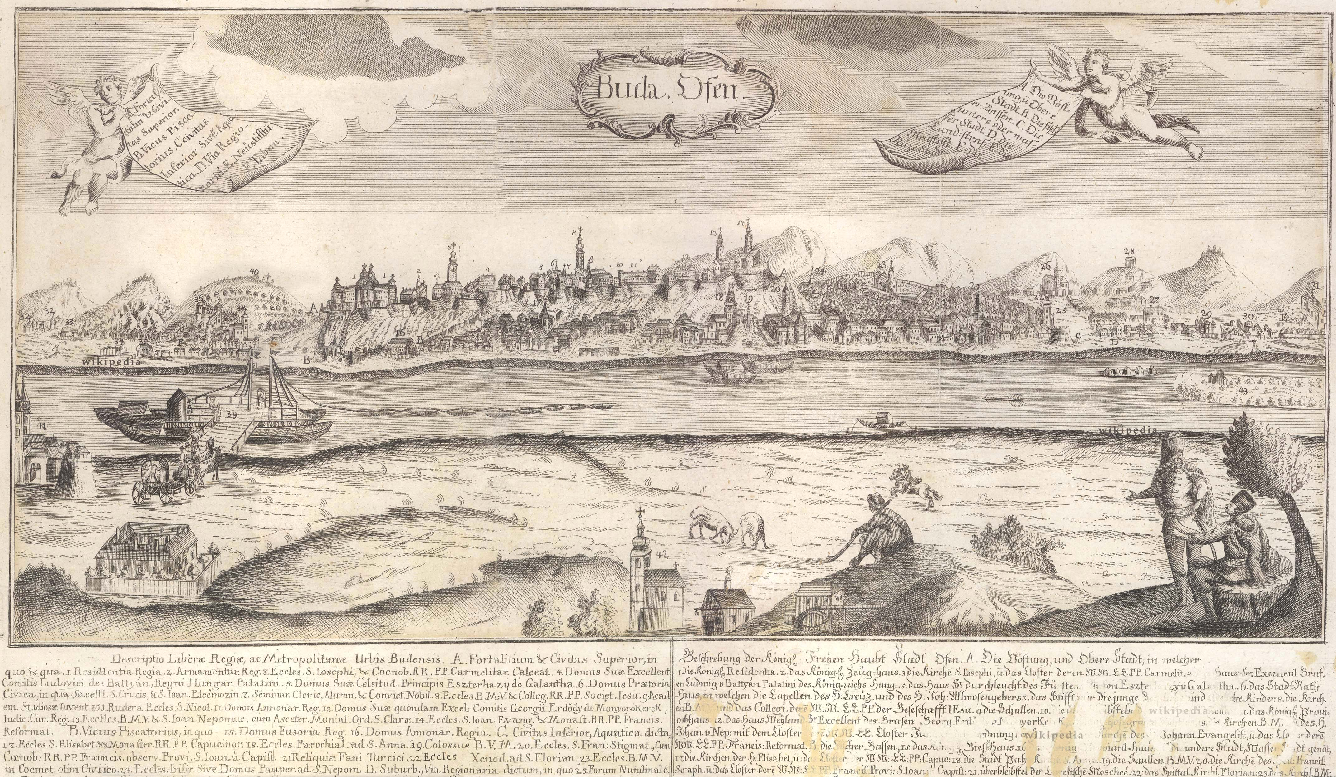 Buda, 1761